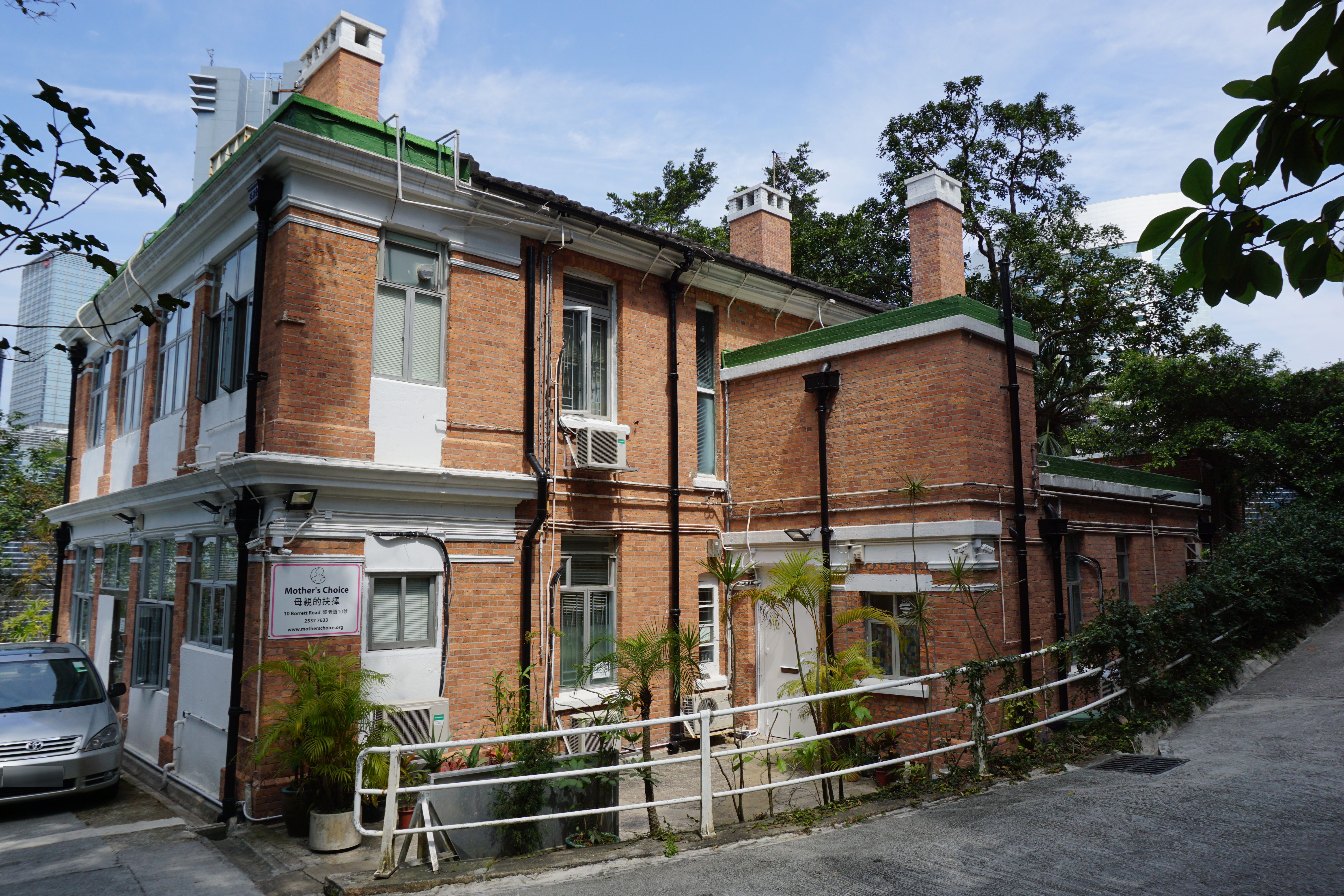 Mother's Choice in Borrett Road, Hong Kong.